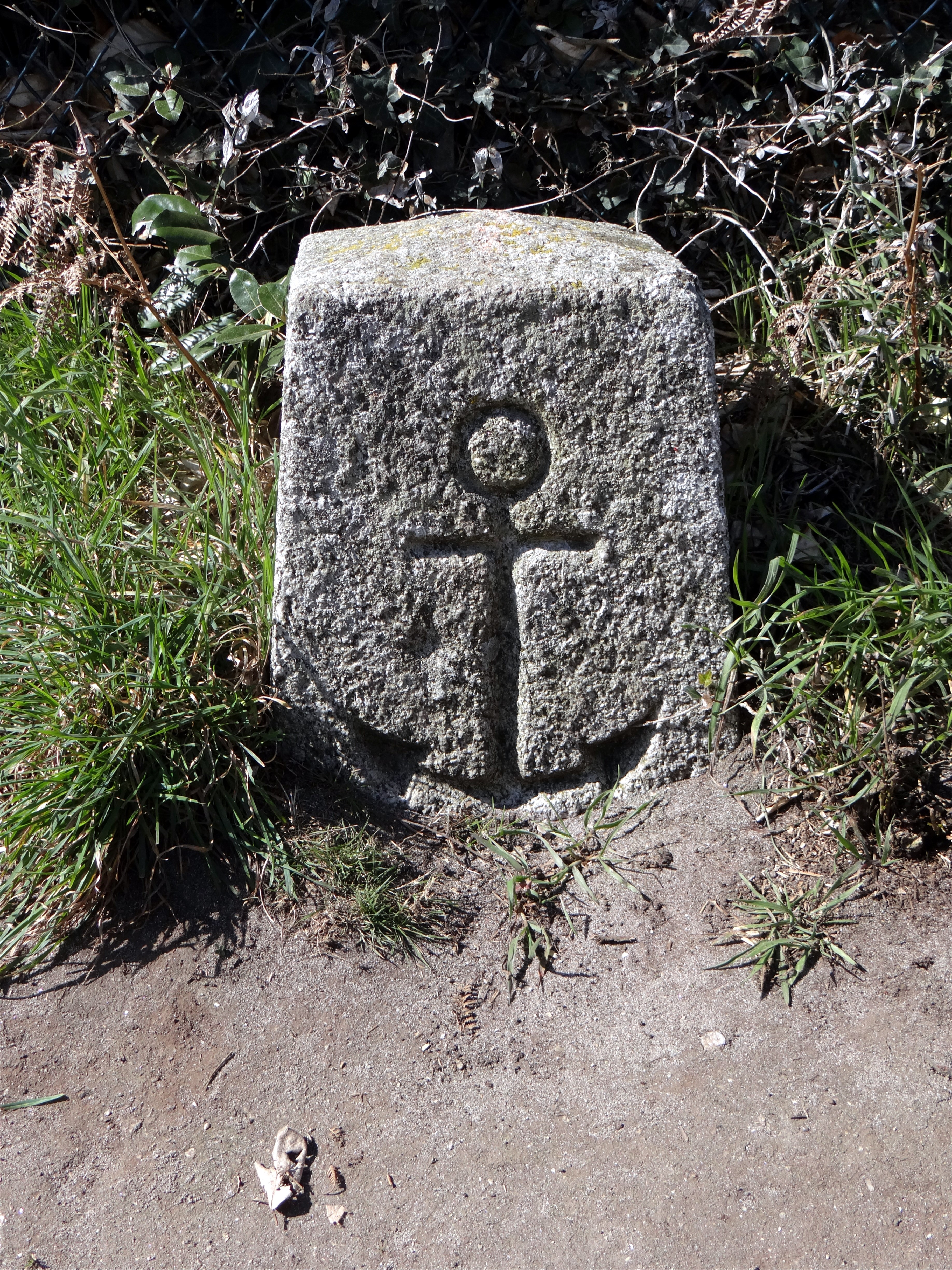 Terminal coastal path, Pointe Beg-Meil Fouesnant, Finistère, France.